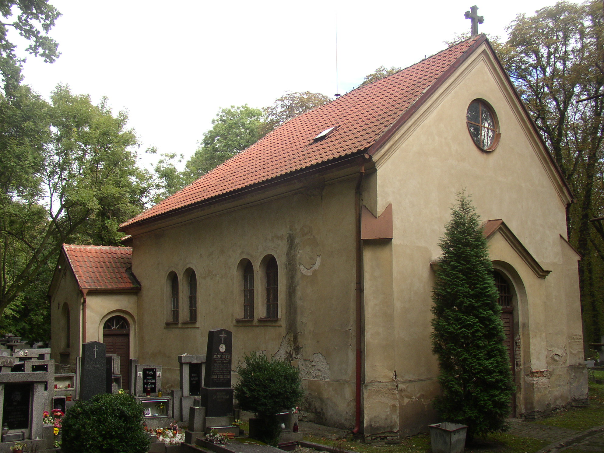 Church of Saint John the Baptist near Dubí, eastern suburb of Kladno city, Kladno District, Central Bohemian Region Czech Republic. The Gothic 14th century church, located lonely amidst forest, is the sole preserved remnant of medieval village of Újezdec (aka Újezd), deserted during one of domestic wars around 1450. A view from the west.